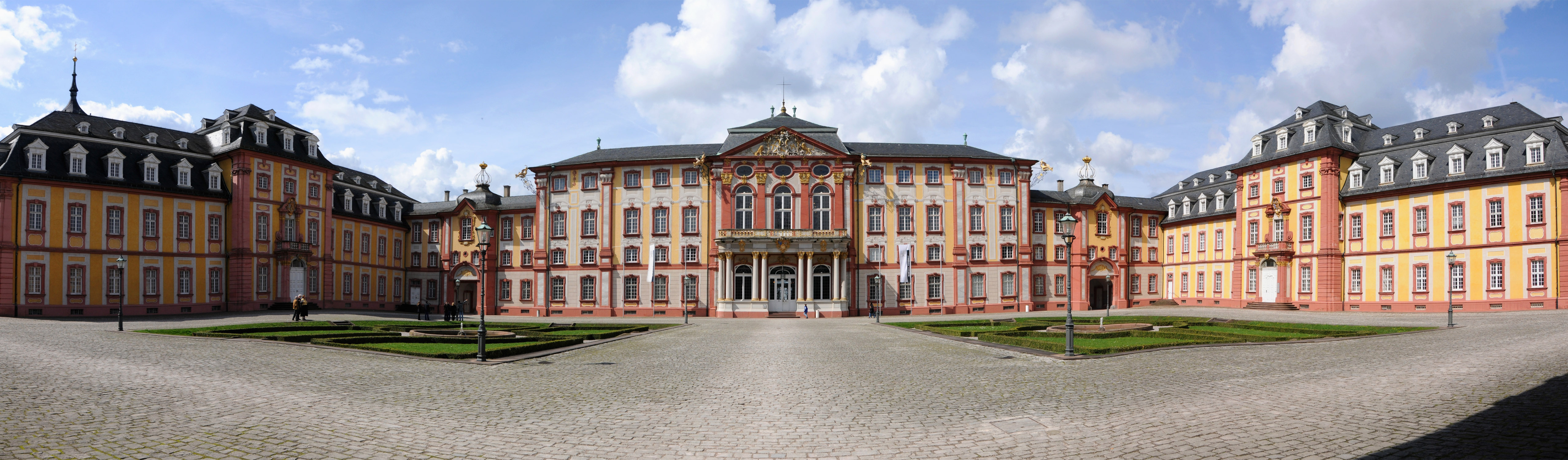 Bruchsal, castle courtyard , 5 pictures stitched